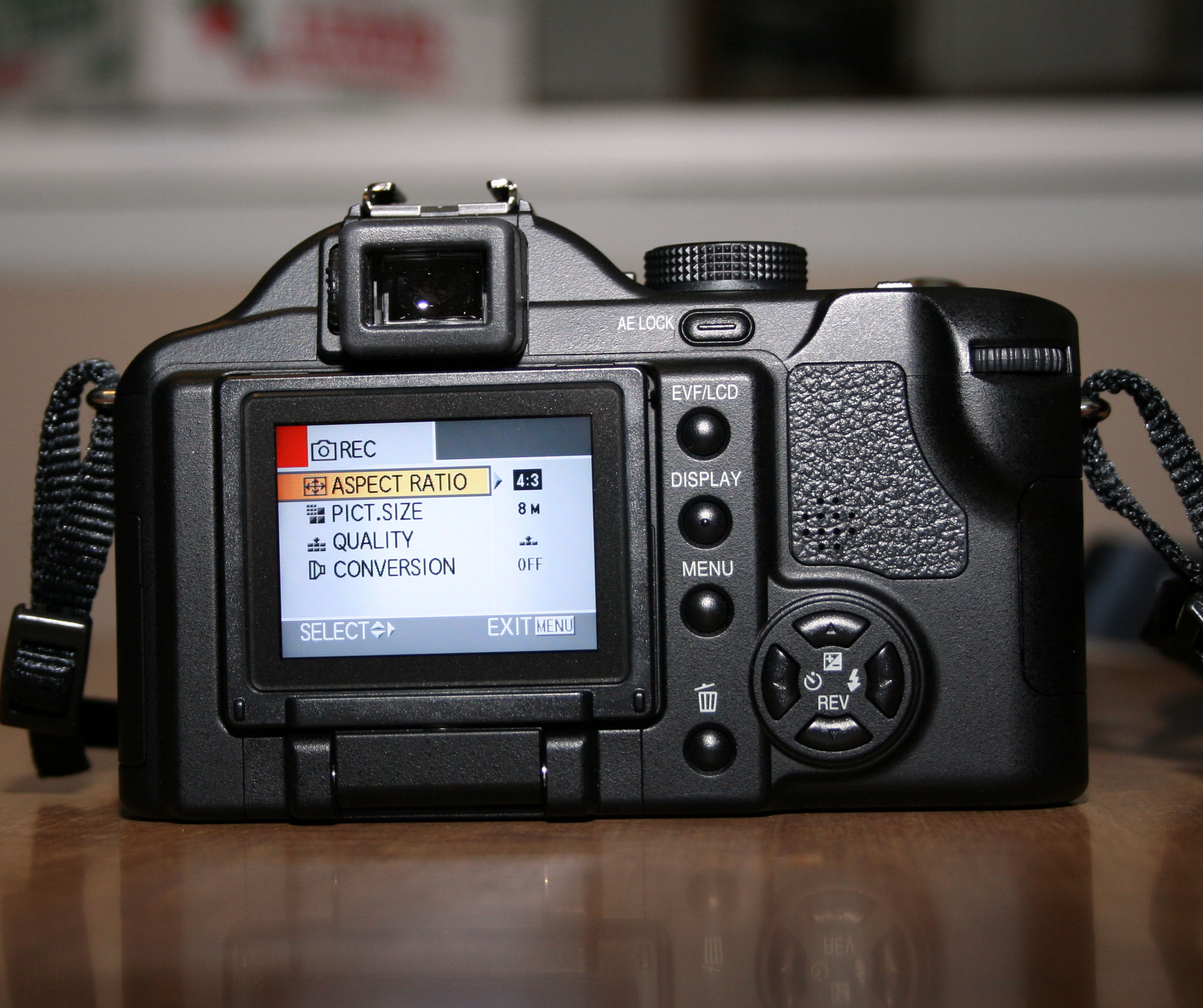 Rear view of a Panasonic LUMIX DMC-FZ30 Digital Camera, showing rear LCD display and controls.